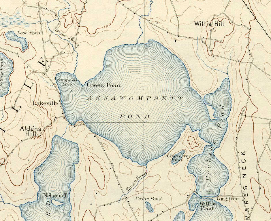 Assawompsett Pond, Lakeville and Middleborough, Massachusetts